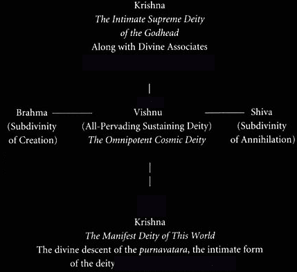 Based on the typology proposed by Scheweig (2004), Krishna in Chaitanya school of Vaishnavism